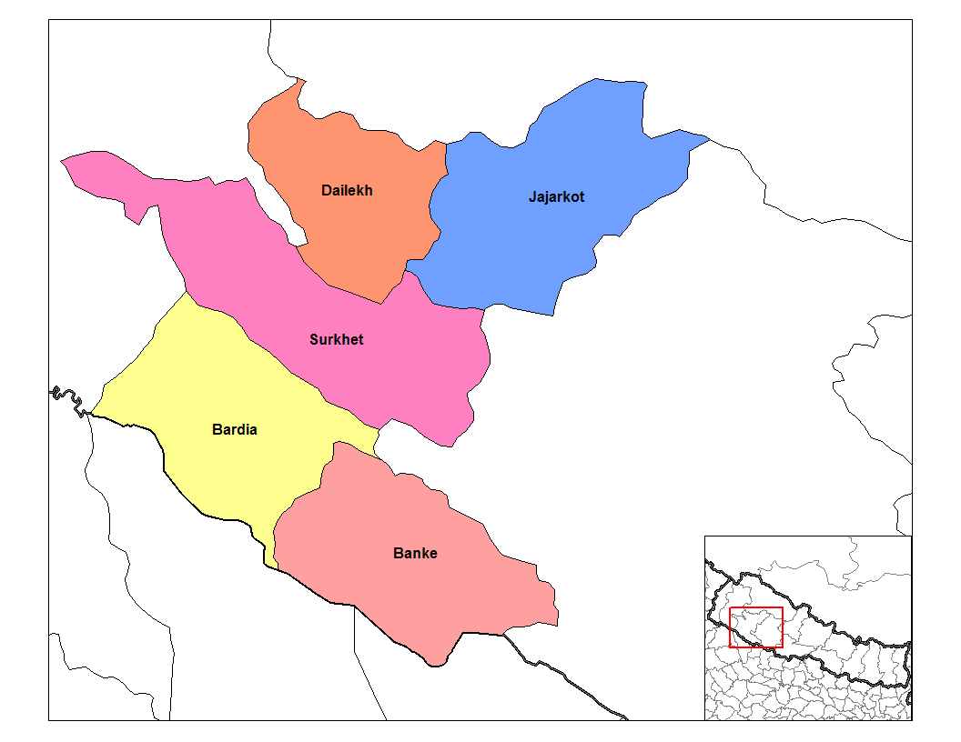 Map of the districts of Bheri Zone (wp-EN) in Nepal. Created by Rarelibra 18:12, 18 September 2006 (UTC) for public domain use, using MapInfo Professional v8.5 and various mapping resources.